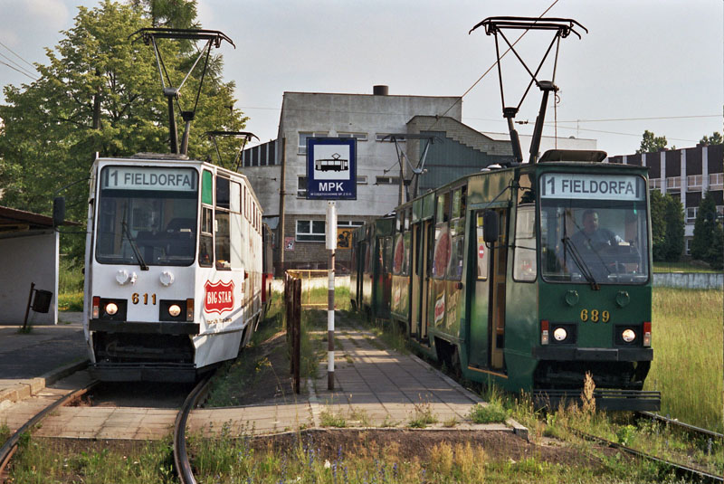 From left to right: two Konstal 105Na trams (#611, built 1989; #689, built 1984) at the Kucelin stop in Częstochowa, Poland.